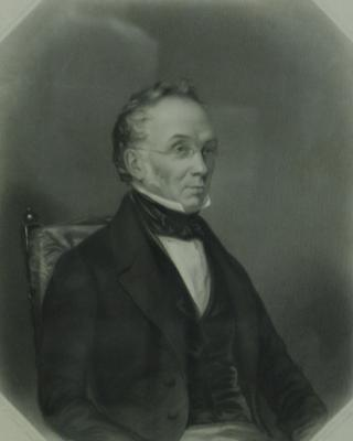 Portrait of Sir William Brown (1784 – 1864) by Charles Allen Du Val